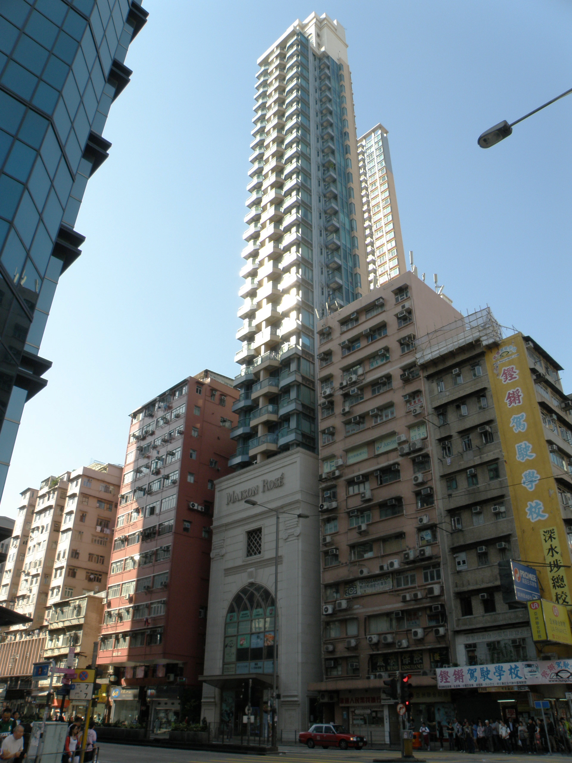 Maison Rosé in Sham Shui Po, Hong Kong.